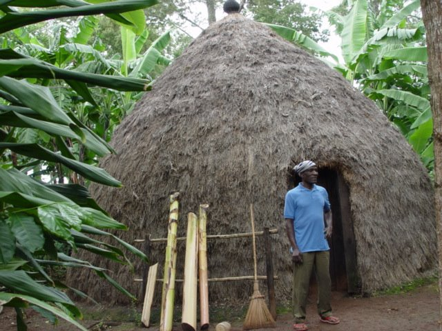 Traditional Chaga Hut